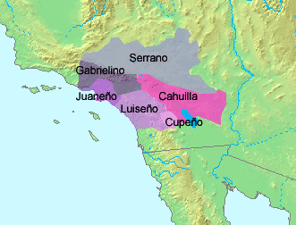 Takic languages of South California, approximate extension at the time of contact